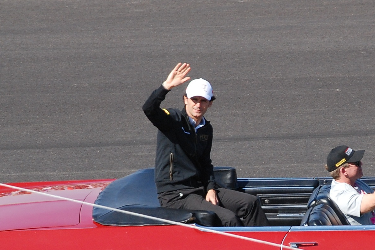 Pedro de la Rosa, United States Grand Prix, Austin 2012